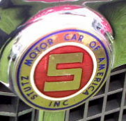 Stutz badge